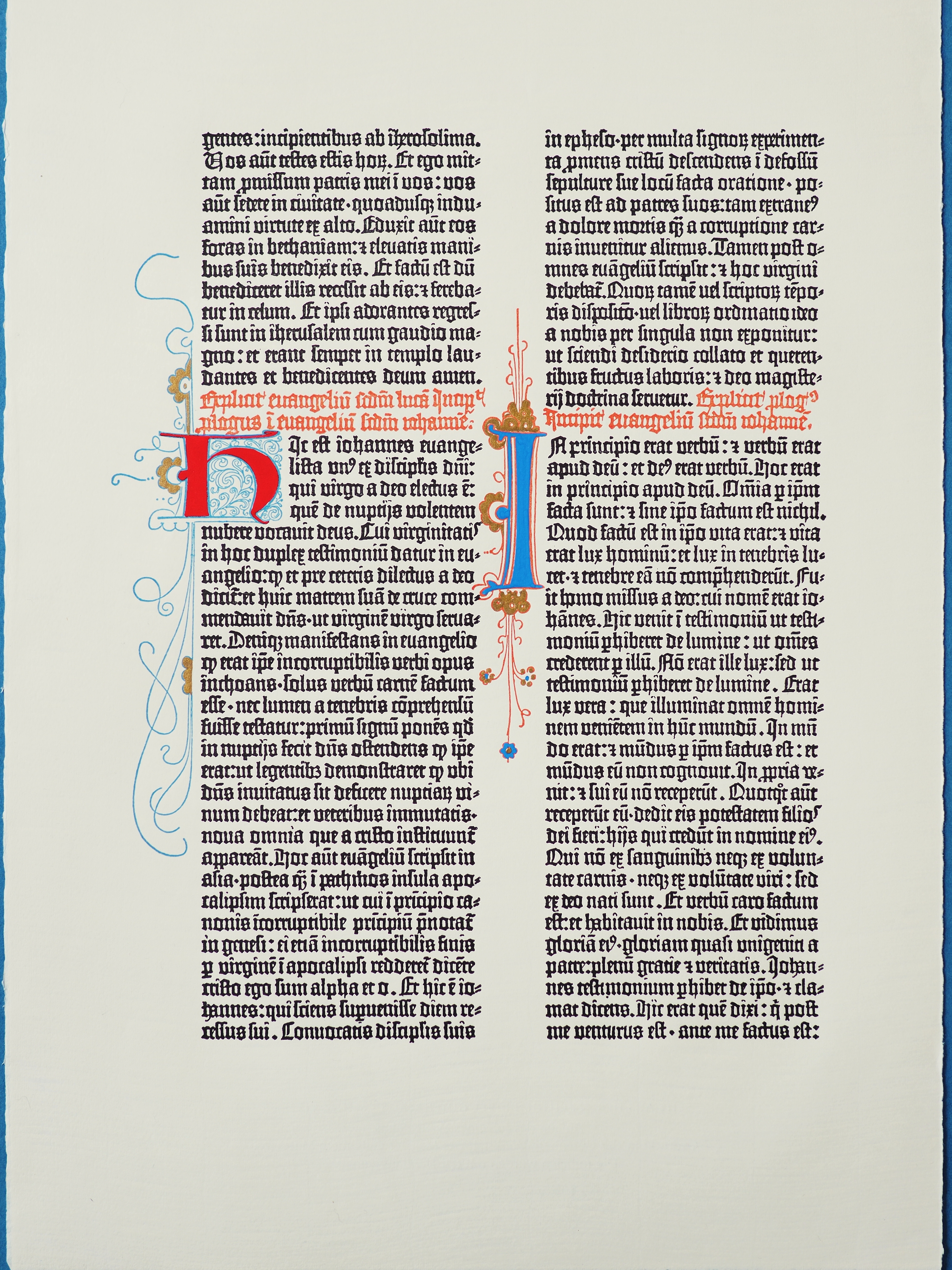 Handprinted sheet of the 42-line Gutenberg Bible as sold at the Gutenberg Museum, Mainz